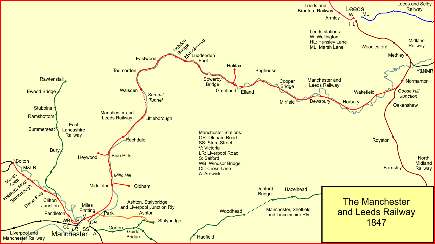 System map of the Manchester and Leeds Railway in 1841, England